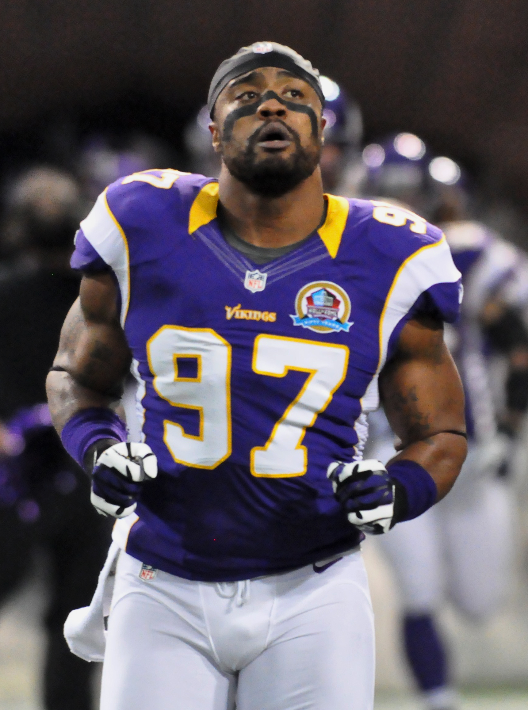 Minnesota Vikings defensive end Everson Griffen